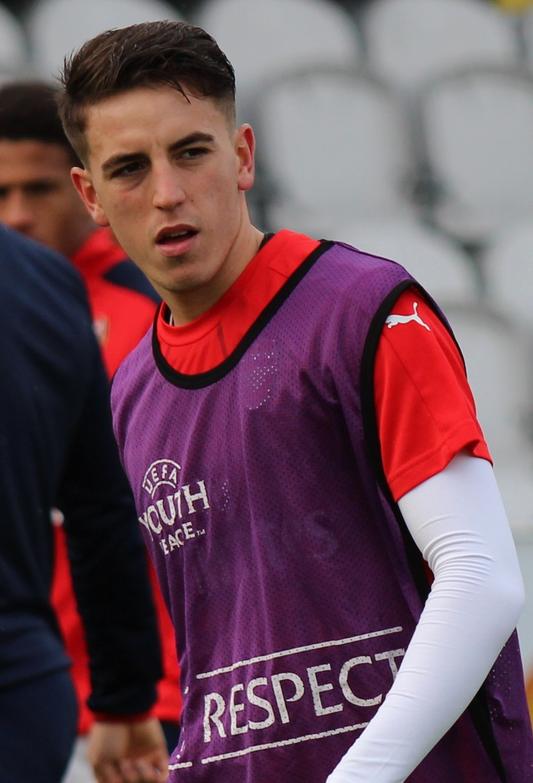 Julio Pleguezuelo of Arsenal U19s before the game against Dinamo Zagreb.